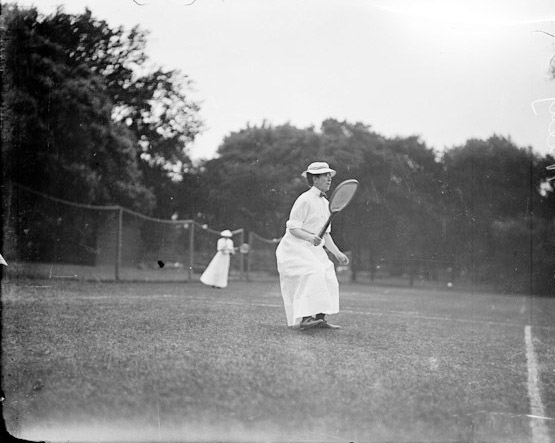 Portrait of Miss Carrie Neely, tennis player, positioning on a tennis court to receive a ball at a tennis club in Chicago, Illinois. A woman tennis player is visible on the court behind her in the background.